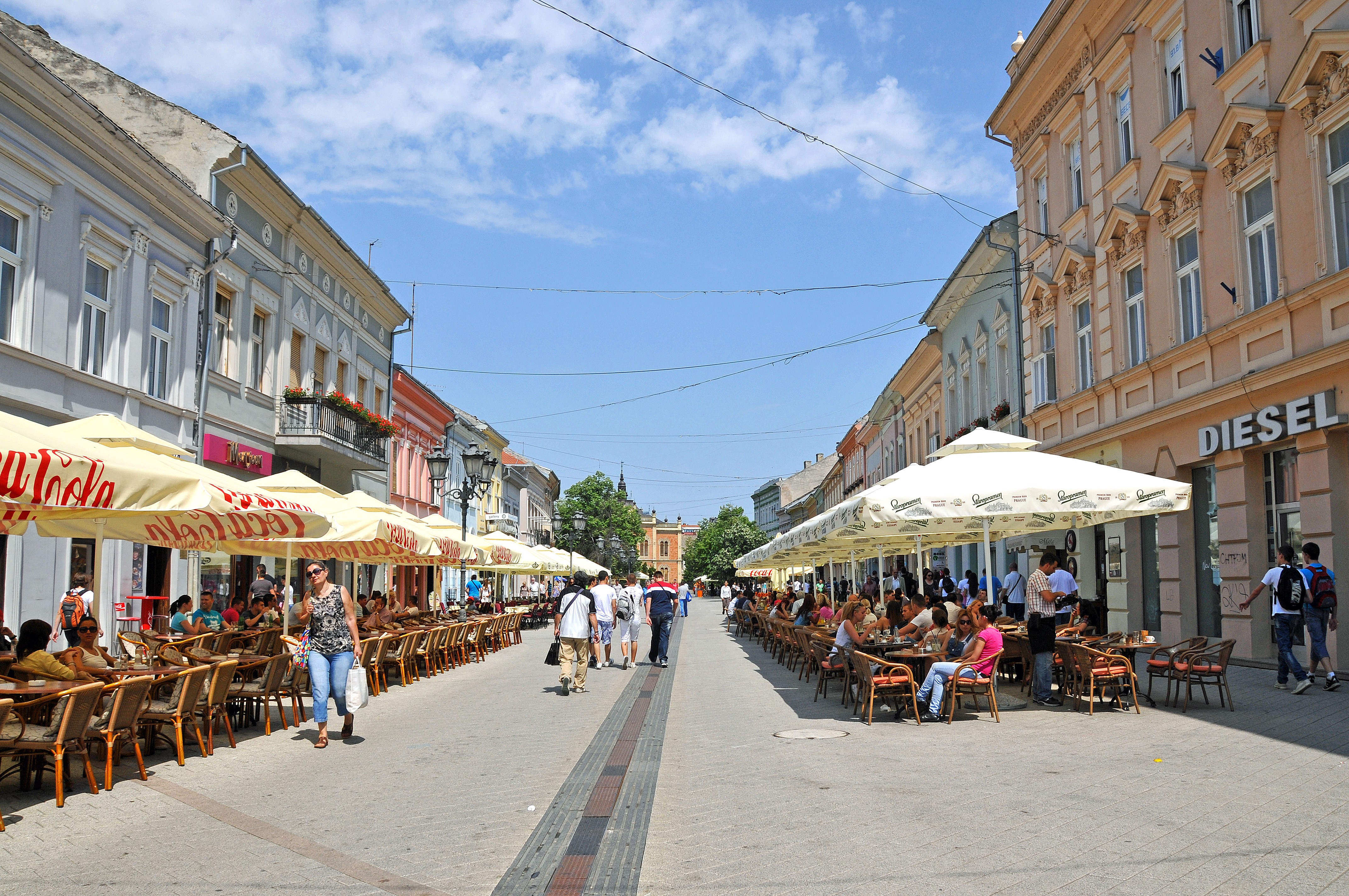 PLEASE, no multi invitations, glitters or self promotion in your comments, THEY WILL BE DELETED. My photos are FREE for anyone to use, just give me credit and it would be nice if you let me know, thanks - NONE OF MY PICTURES ARE HDR. The pedestrian street in Novi Sad, it has many places to eat and shop. Had a short stop here to eat and see what we could.